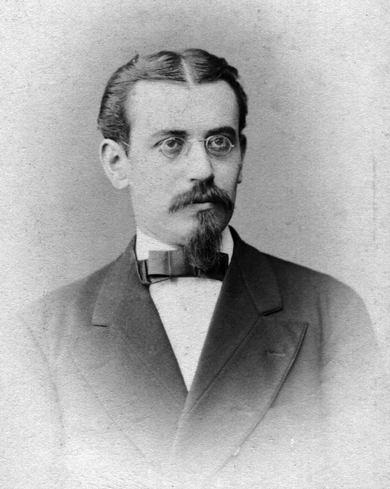 Portrait of Hubert Jacob Ludwig, around 1880, when the zoologist was about 28 years old